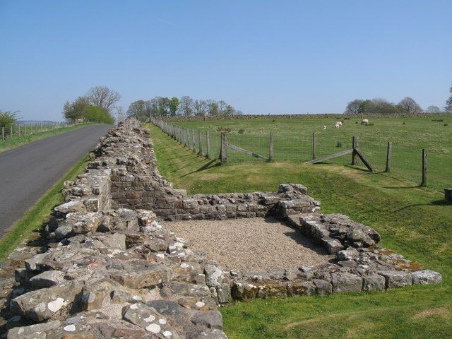 Hadrian's Wall and Turret 49b (Birdoswald), near to Gilsland, Cumbria, Great Britain.